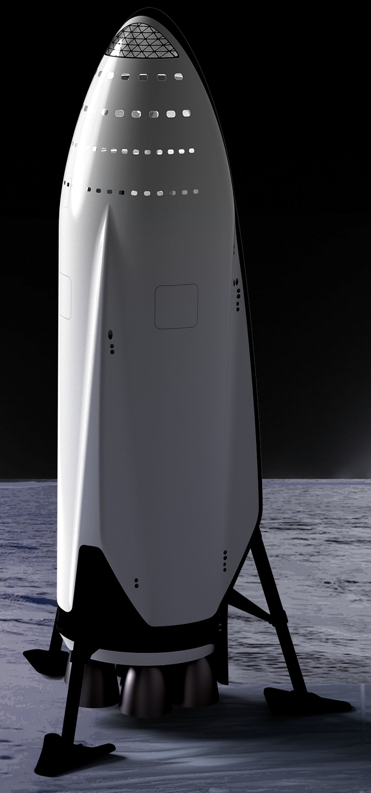 Cropped image of a render of the SpaceX Interplanetary Spaceship CAD model, with reduced (mosly, removed) emphasis on the artist's impression of it landed on Solar System moon (Enceladus), 2016. The cropped image better shows the landed spacecraft, with two cargo doors and one passenger door visible, along with an entire topside view (white side) of the ship. A small amount of the black PICA-x heatshield material on the bottom of the ship is visible along the top and rightside edges.